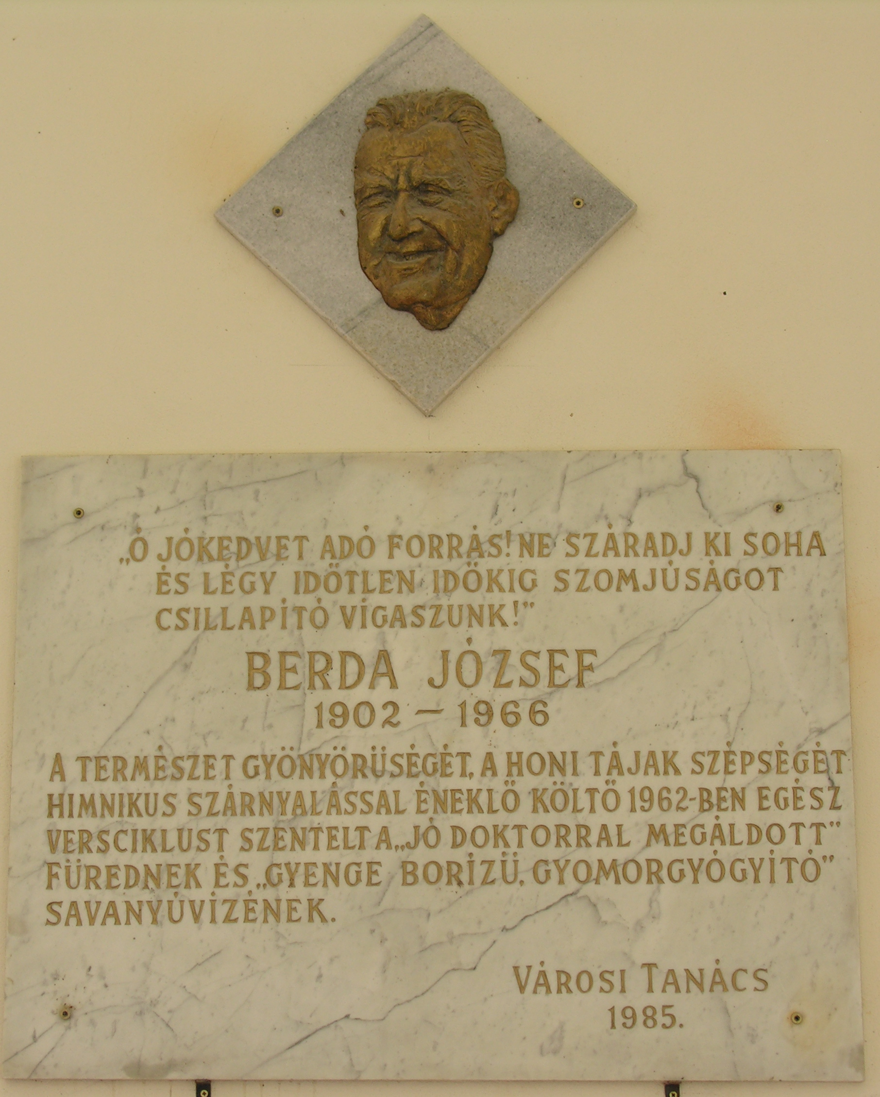 Commemorative plaque of József Berda in Balatonfüred, Gyógy Square No 1